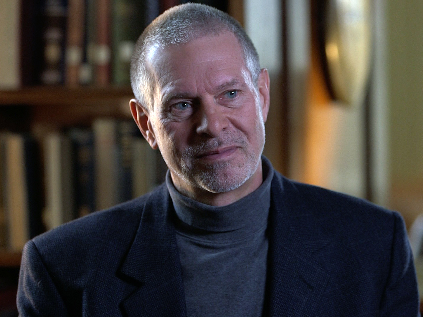 Portrait of Dr. Robert Hazen from a video interview in 2015.